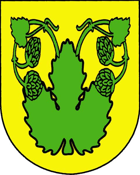 Coat of amrs of Velká Chmelištná , District Rakovník, Czech Republic